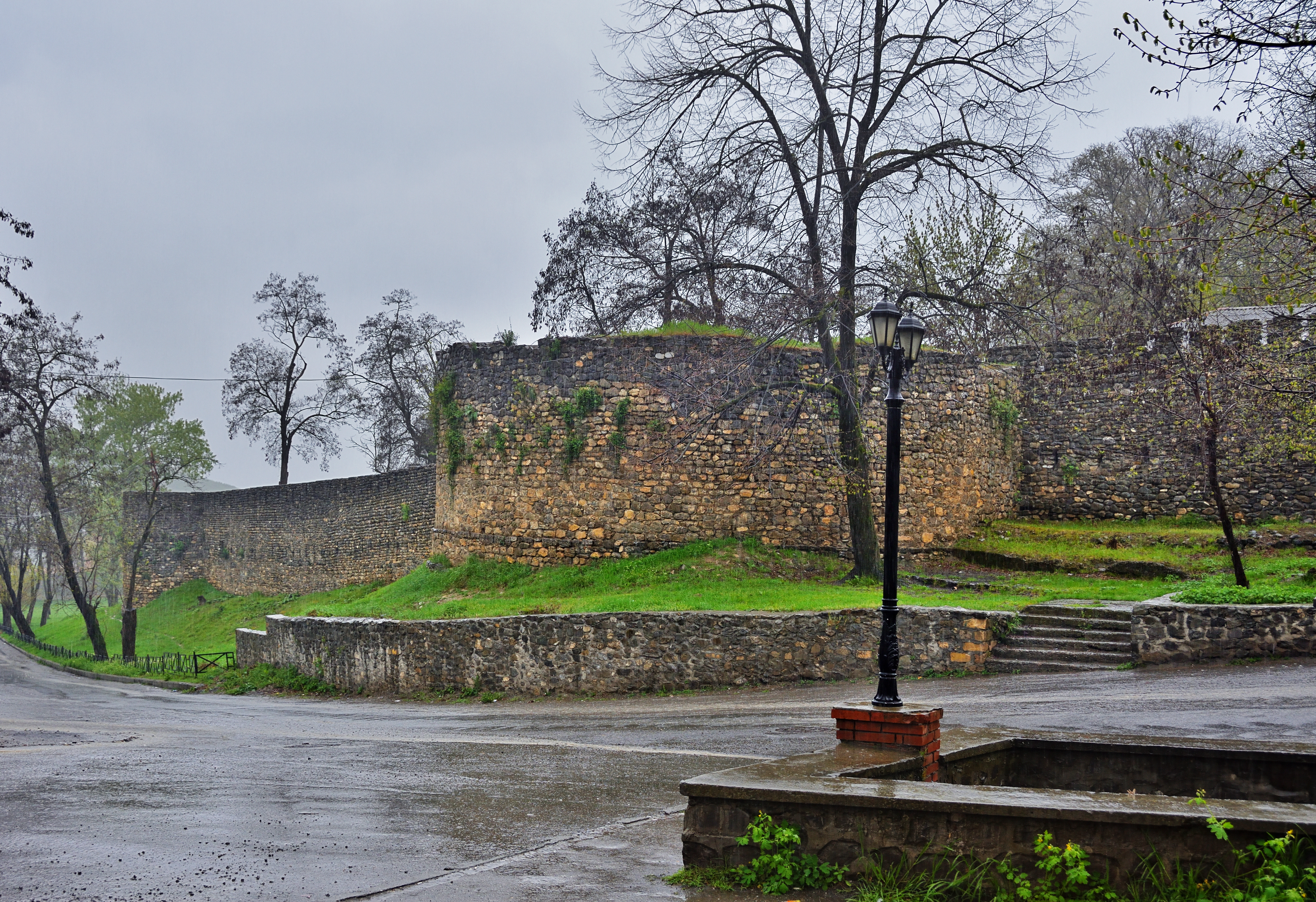 Wall and tower of Shaki fortress, Azerbaijan